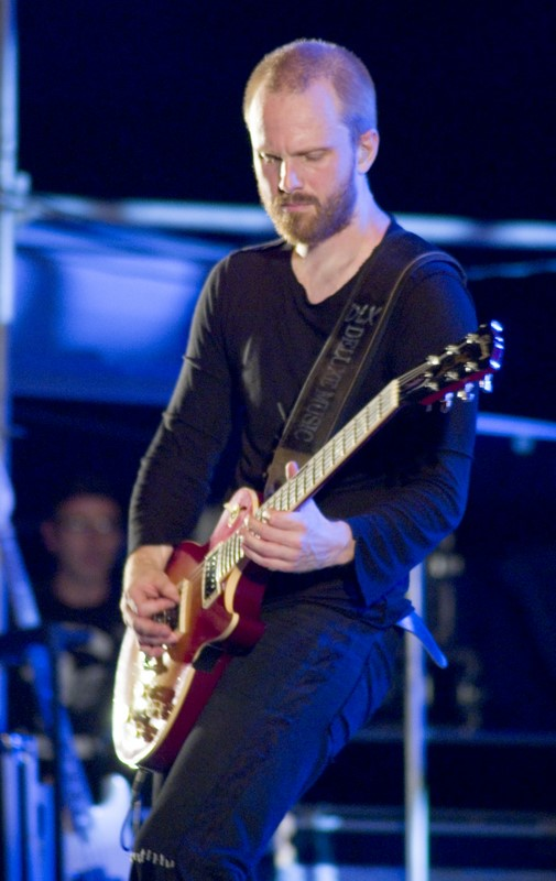 Therion live in Płock, Poland, 2008-09-06.